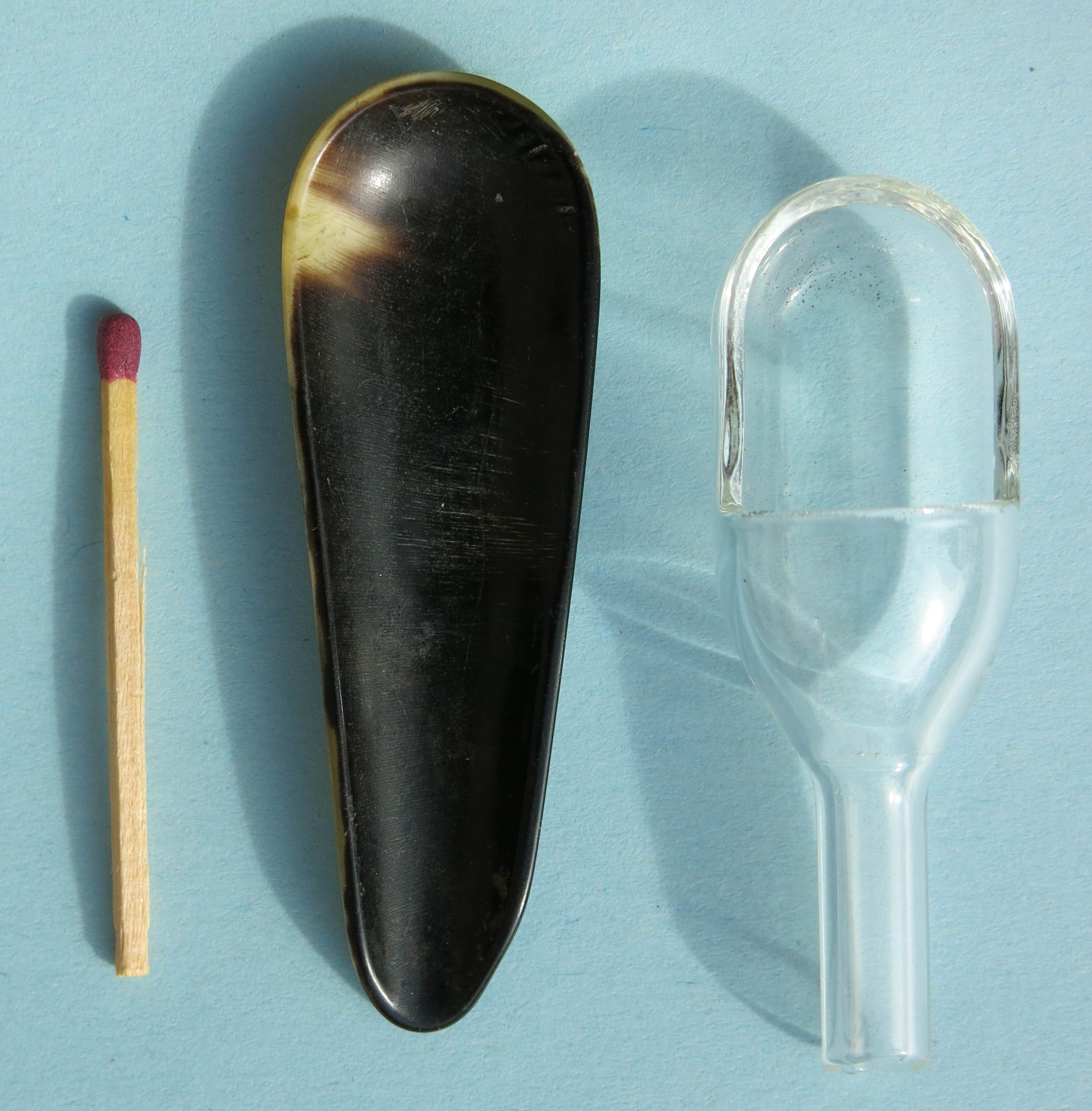 Two weighing boats (horn and glas) with a match for the scaling